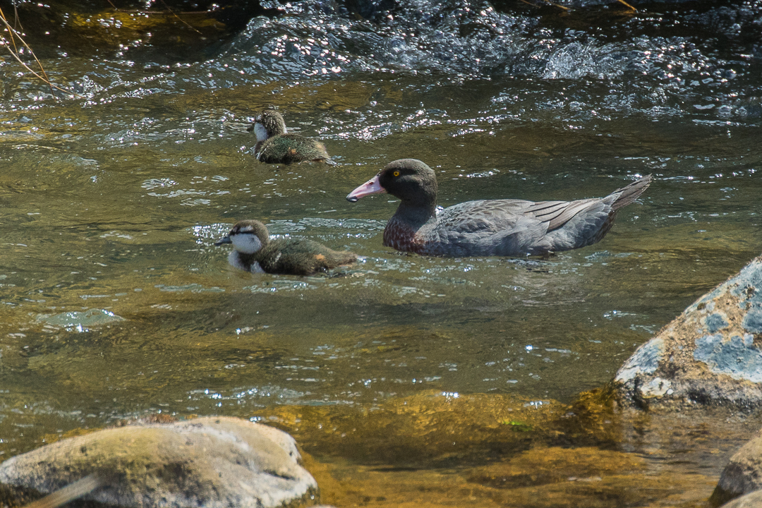 Blue Duck - New Zealand_FJ0A0482